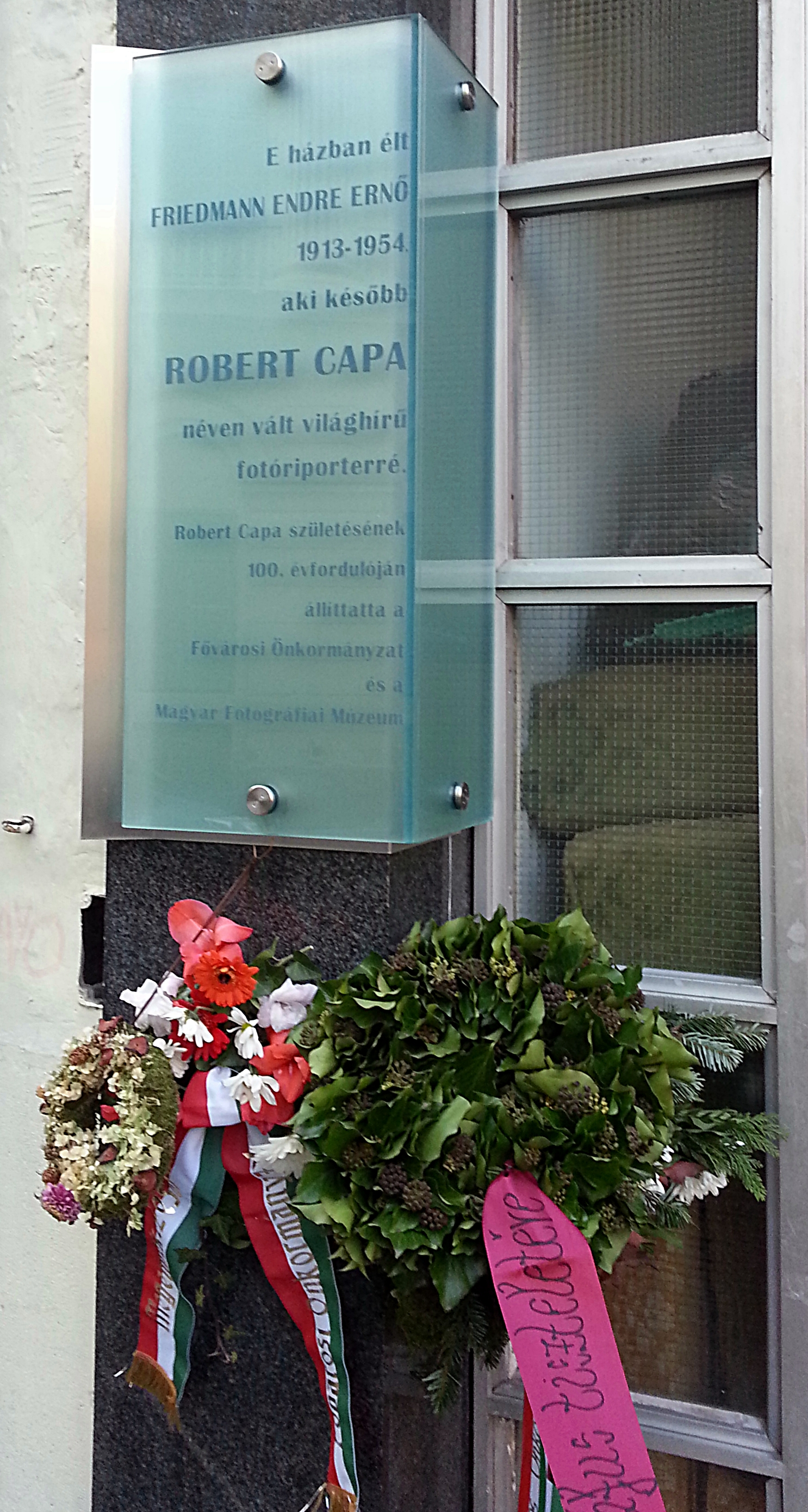 Robert Capa commemorative plaque in Budapest District V, Városház Street No 10